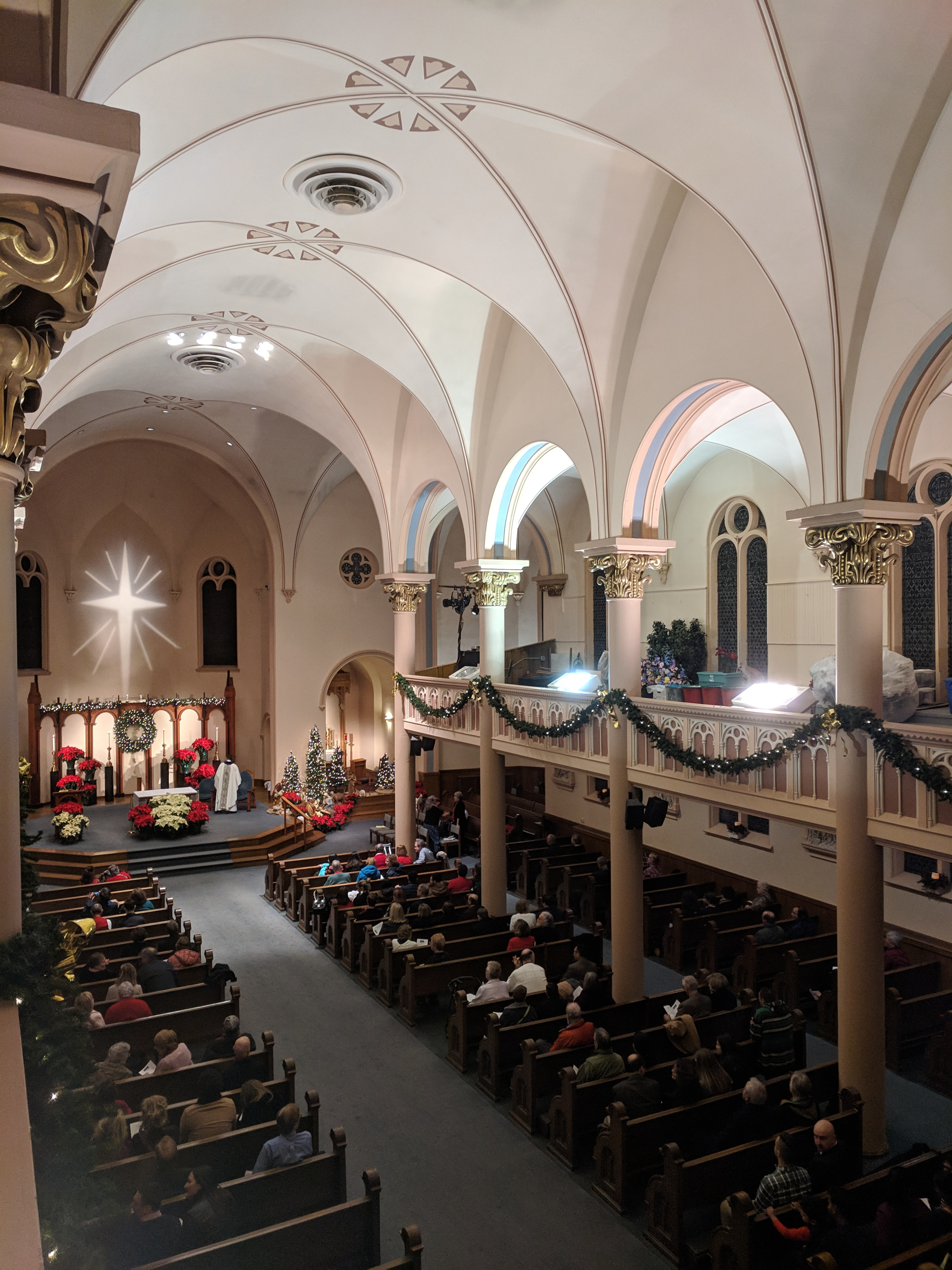 St. Mary's Church (Rochester, New York) on Christmas Eve 2018